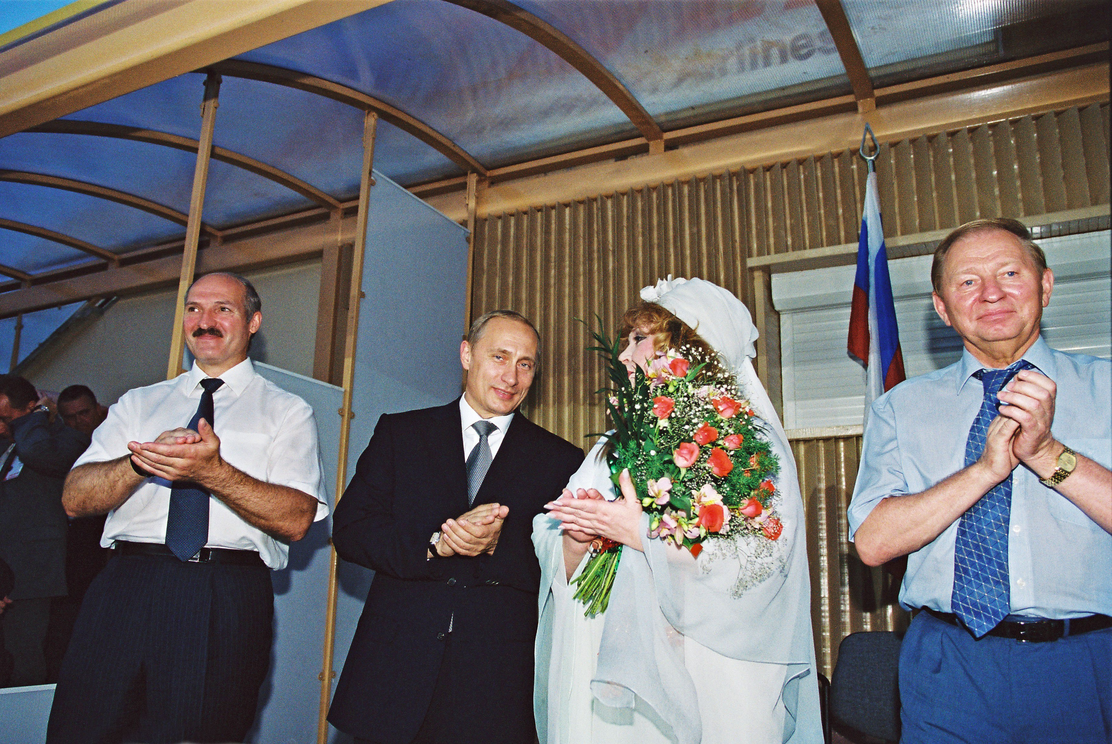 VITEBSK, BELARUS. President Putin with Belarusian President Alexander Lukashenko, Ukrainian President Leonid Kuchma and legendary Russian pop star Alla Pugachova during the inauguration of the Day of Friendship of the Peoples of the Three Slavic States as part of the 10th International Slavic Bazaar Festival.